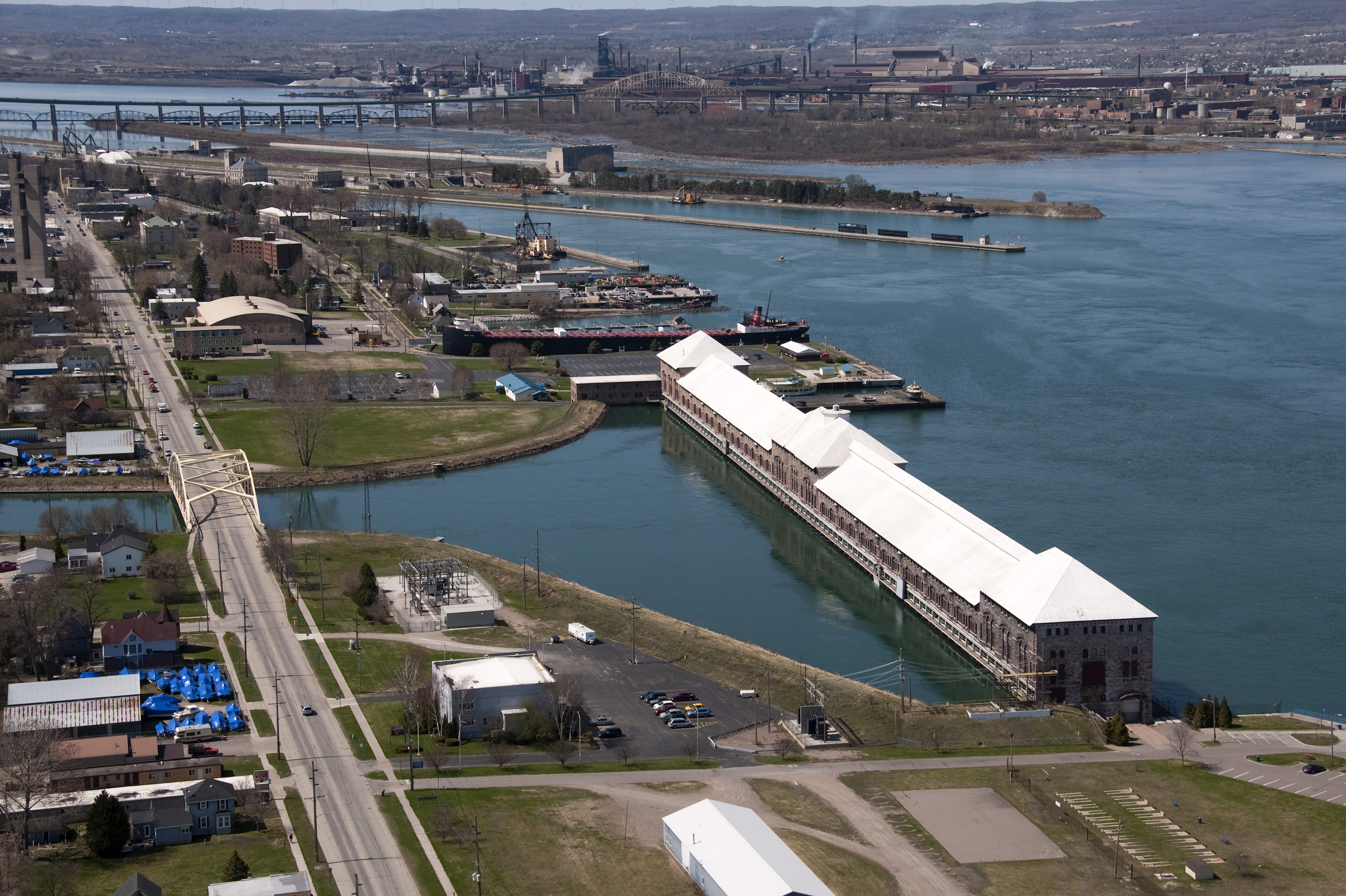 Edison Sault hydroelectric power plant (foreground) and the Soo Locks (background) along the St. Marys River in Sault Ste. Marie, Michigan.